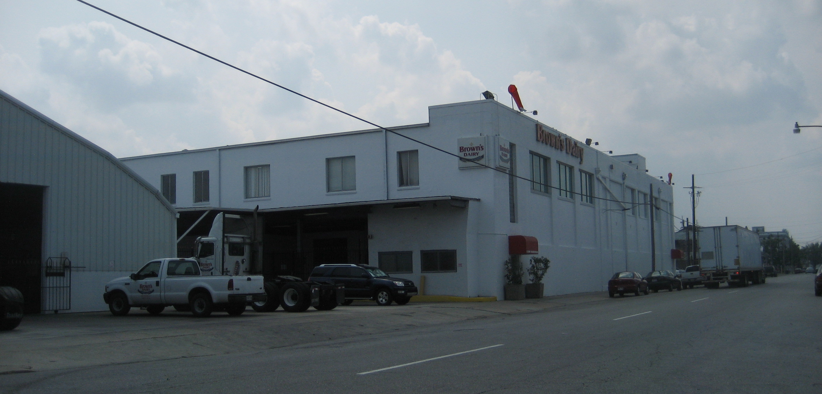 Baronne Street, Central City New Orleans. Brown's Dairy.